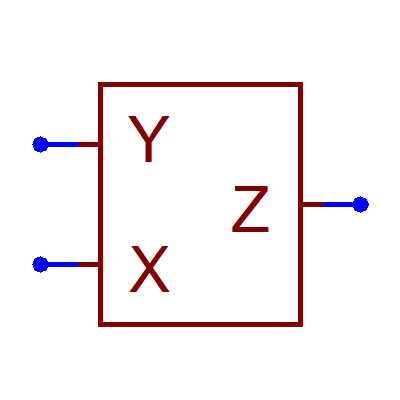 "Black box type" symbol for the current conveyor